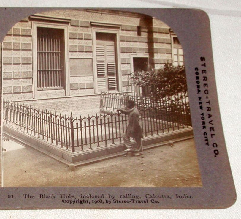 The Black Hole, inclosed by railing, Calcutta, India.